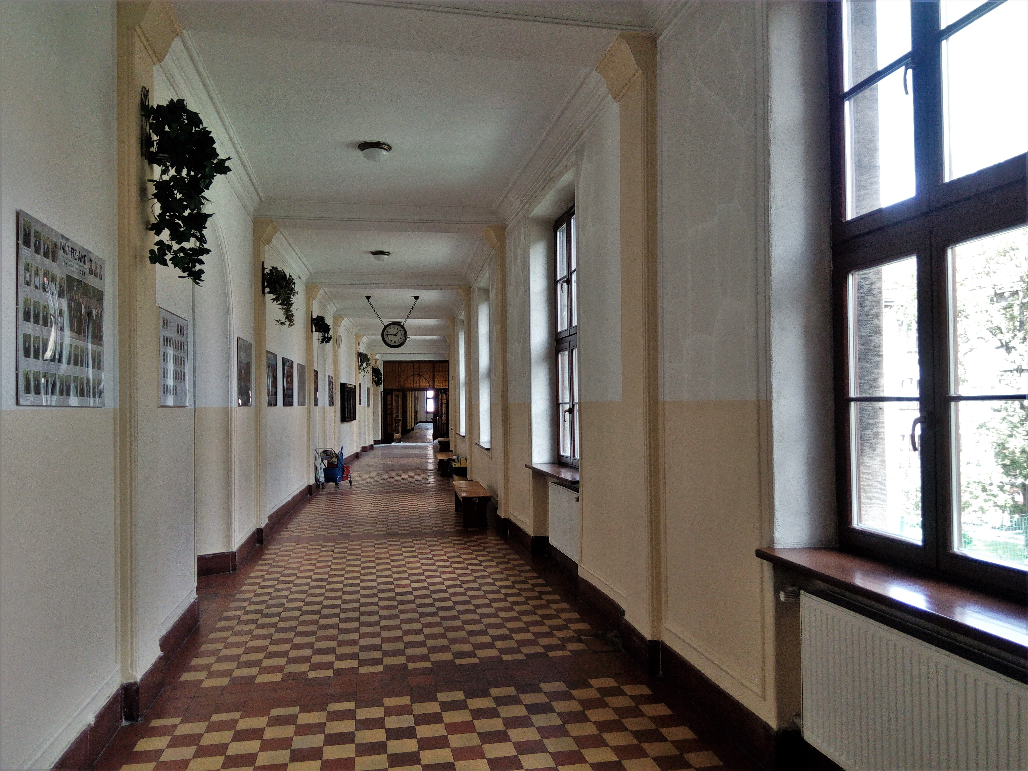 Copernicus Lyceum in Bielsko-Biała – a corridor in the west wing on the first floor